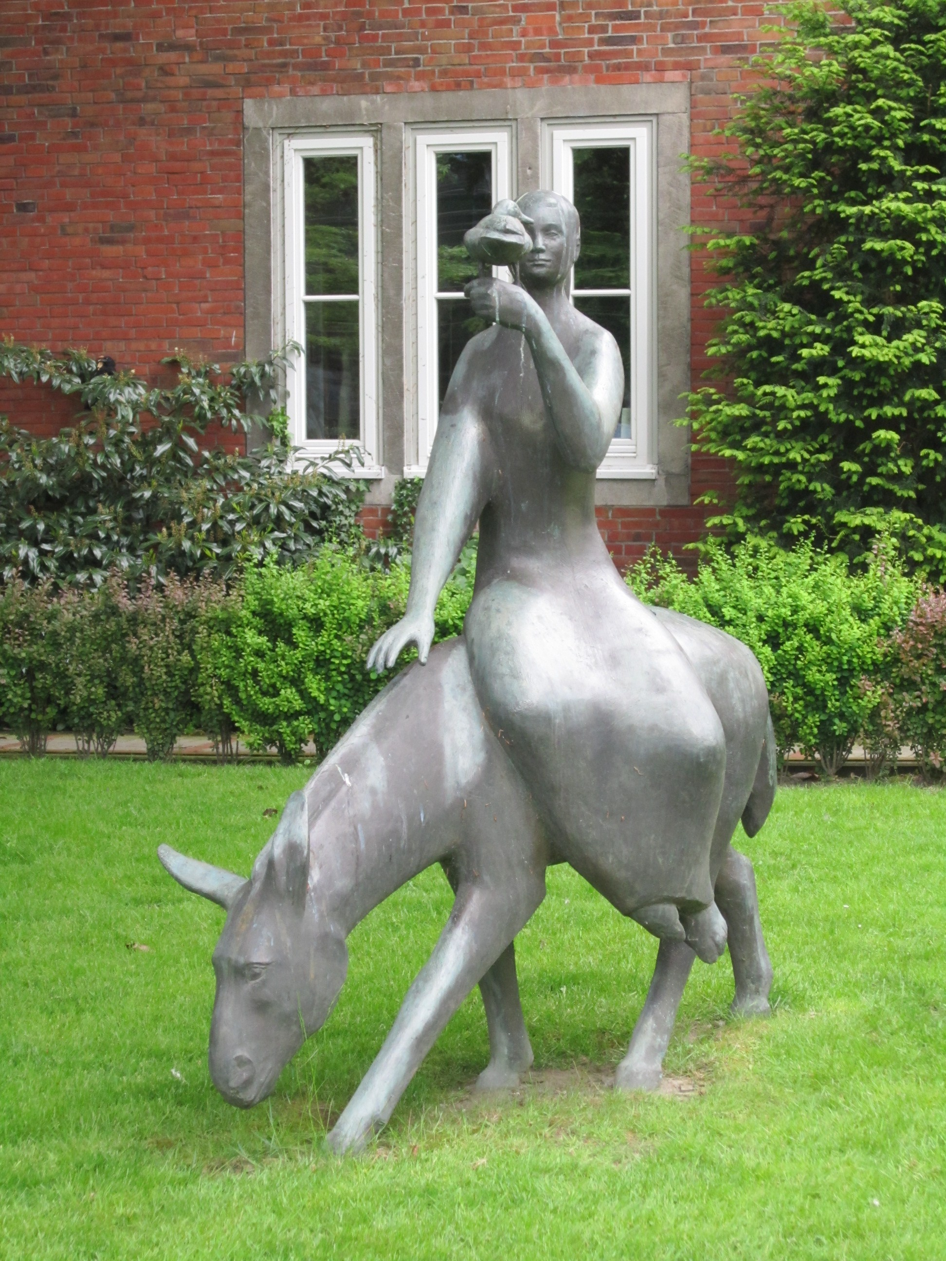 Sculpture "Ride against Prejudice" by Peter Lehmann in front of Vechta Court of Justice